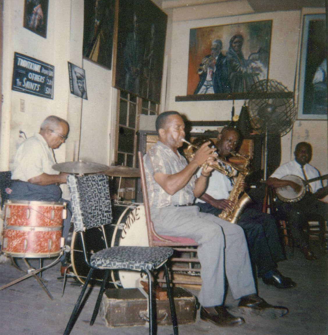 Jazz band playing at Preservation Hall, New Orleans, 1965. Band appears to be Alec Bigard on drums (though playing Chinee Foster's set); Kid Sheik Colar on trumpet; Captain John Handy, saxophone; Fred Minor on banjo. Original captions: The French Quarter, page 634, "1000 Places To See Before You Die." This was taken in the 1960's